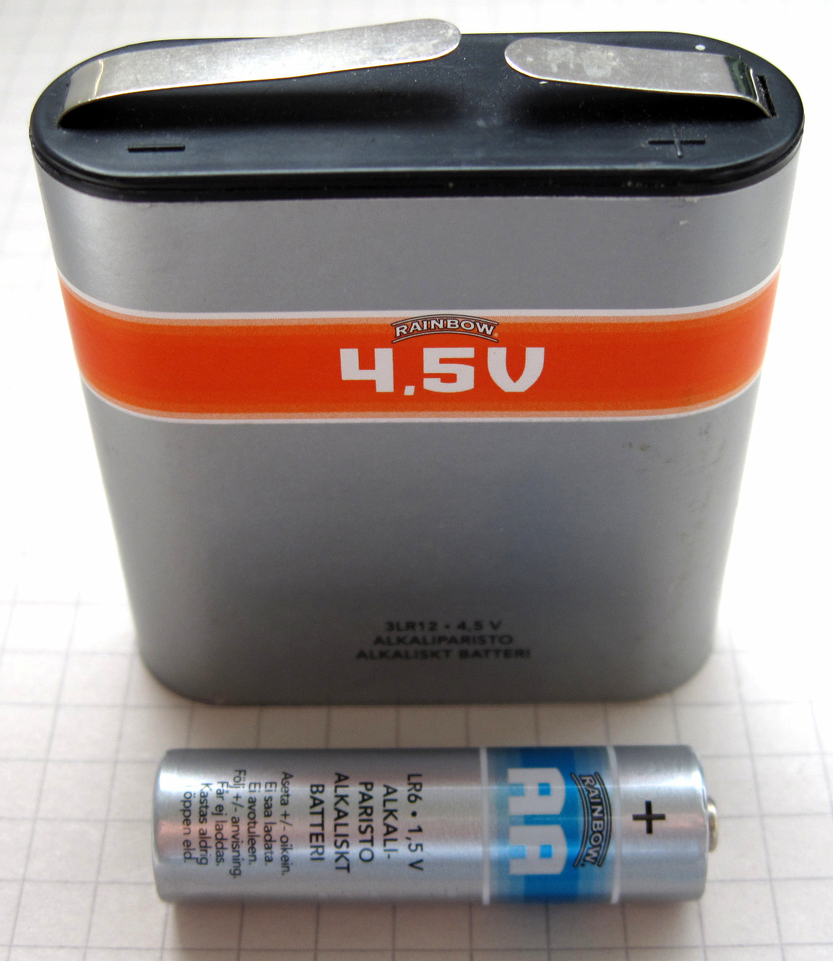 A 4.5V lantern battery (3LR12) with an AA battery for comparison.